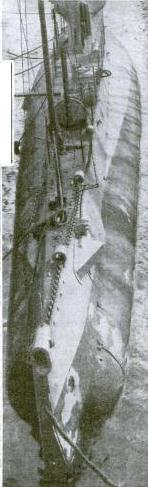 Photograph of American submarine K-5 at pier